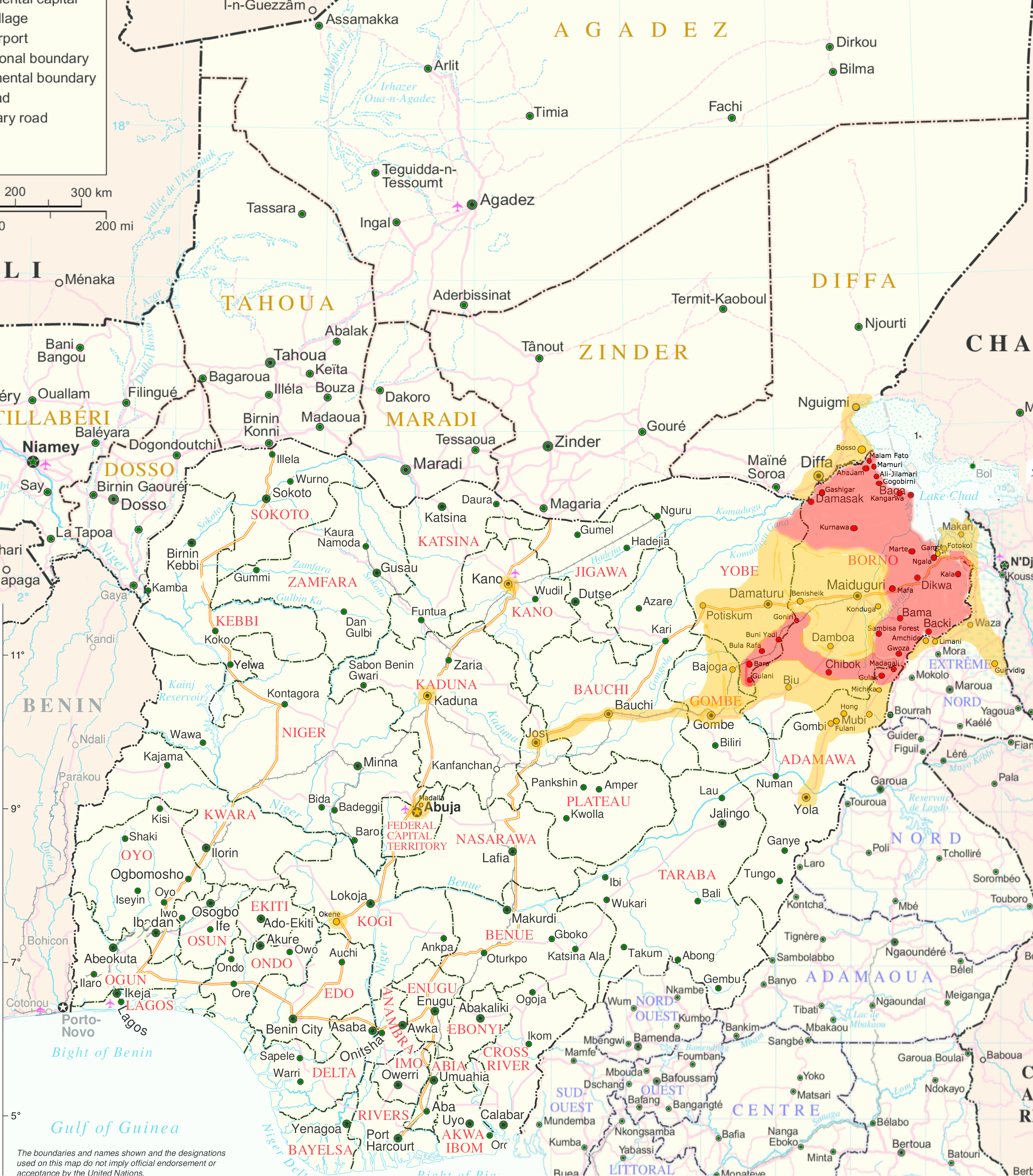 This map depicts the areas controlled and attacked by Boko Haram in the Lake Chad Region. Areas controlled are shown in red. Areas attacked are shown in orange.